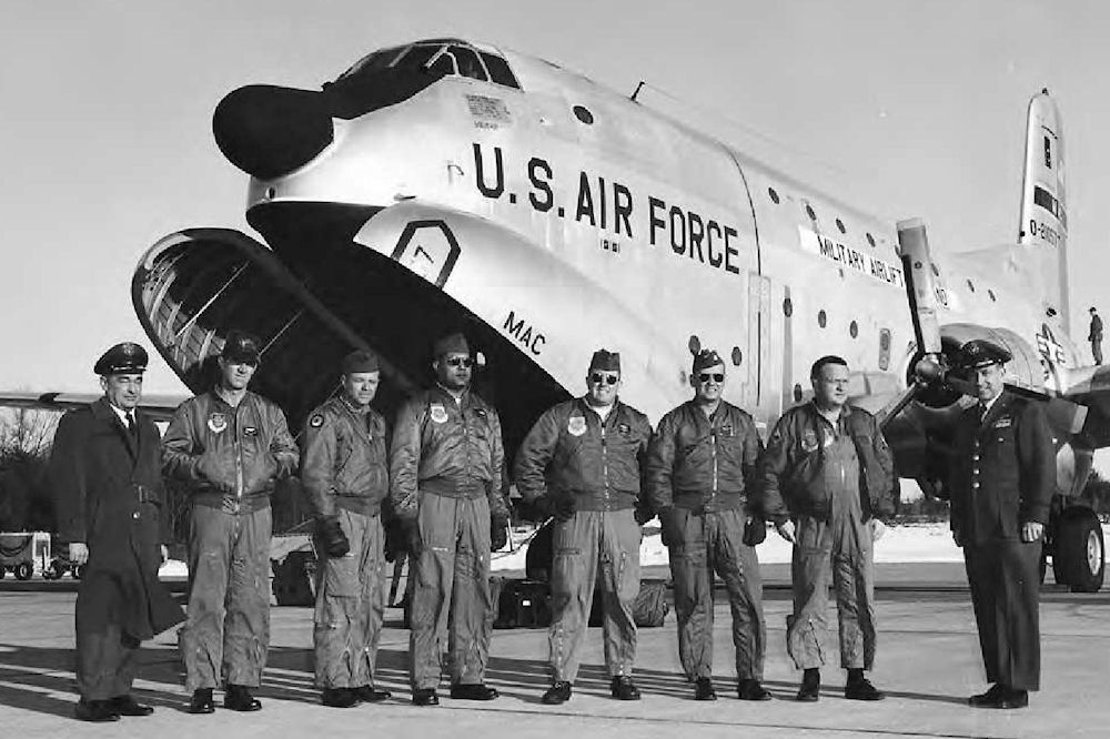 133d Military Airlift Squadron - First C-124C Globemaster II and aircrew